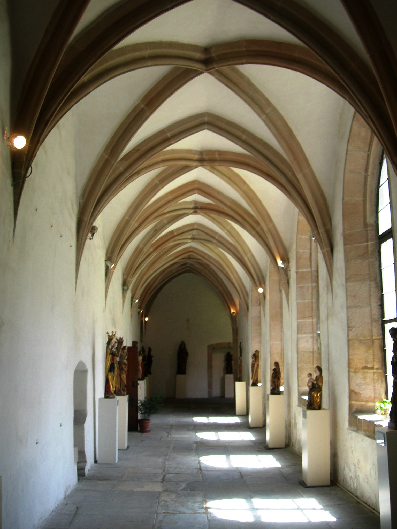 Plzeň, former Franciscan monastery, cloister (early 14th Century)